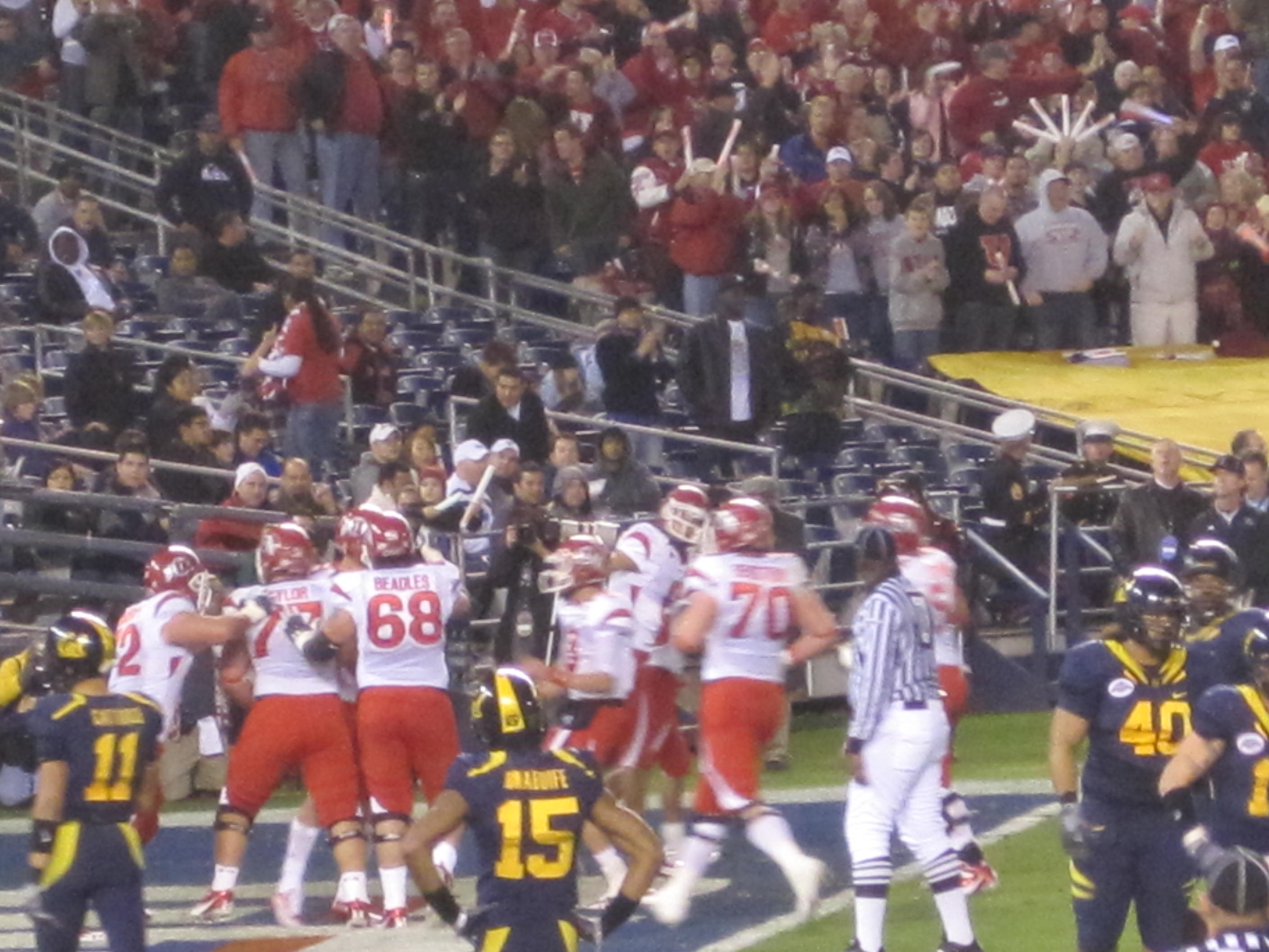 Utah tight end Kendrick Moeai scores a touchdown during the 2009 Poinsettia Bowl between the Utah Utes and the California Golden Bears. The Utes won 37-27.